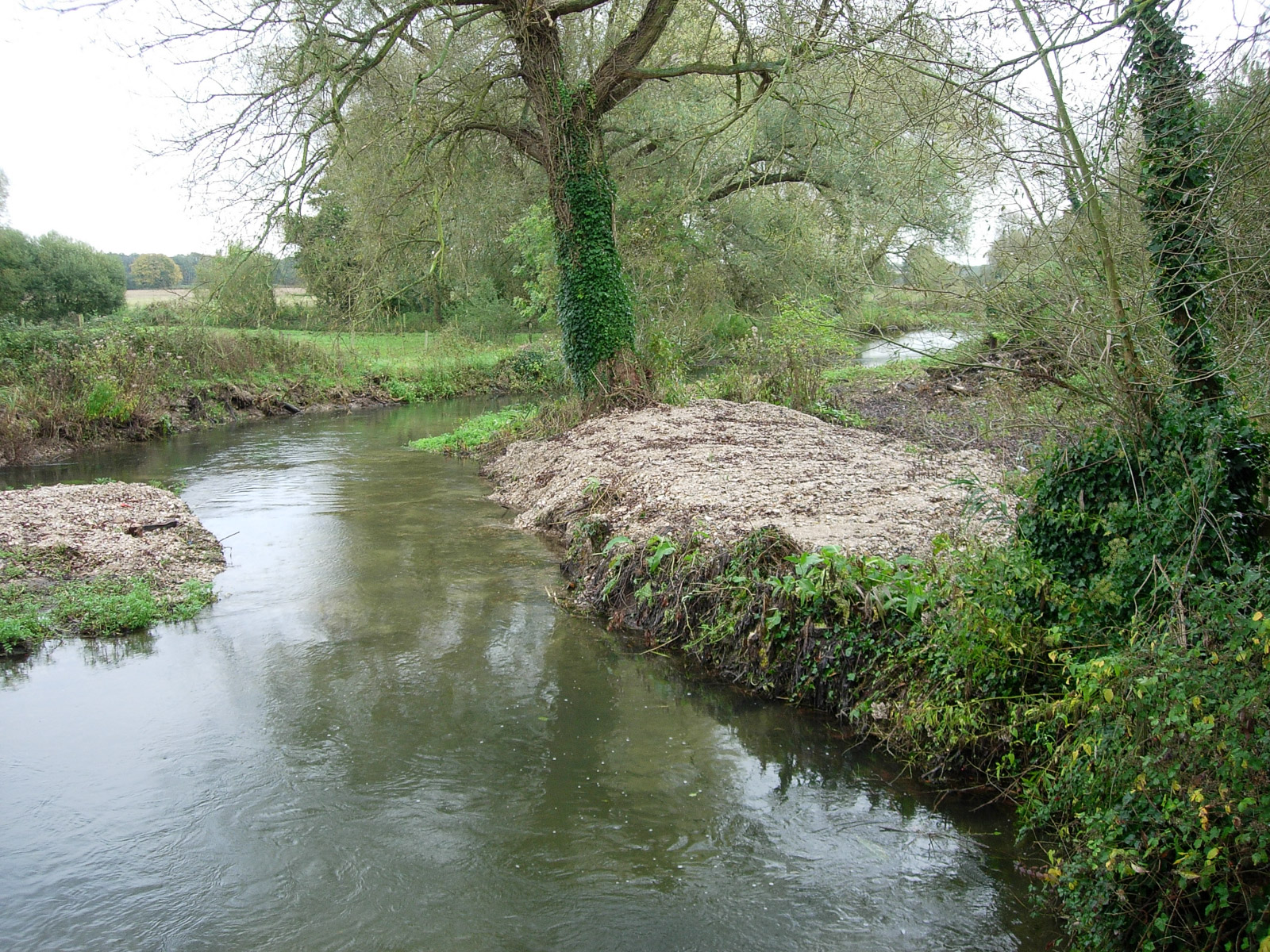 River Itchen. Dredging the bottom keeps the gravel bed clear and so good for fish